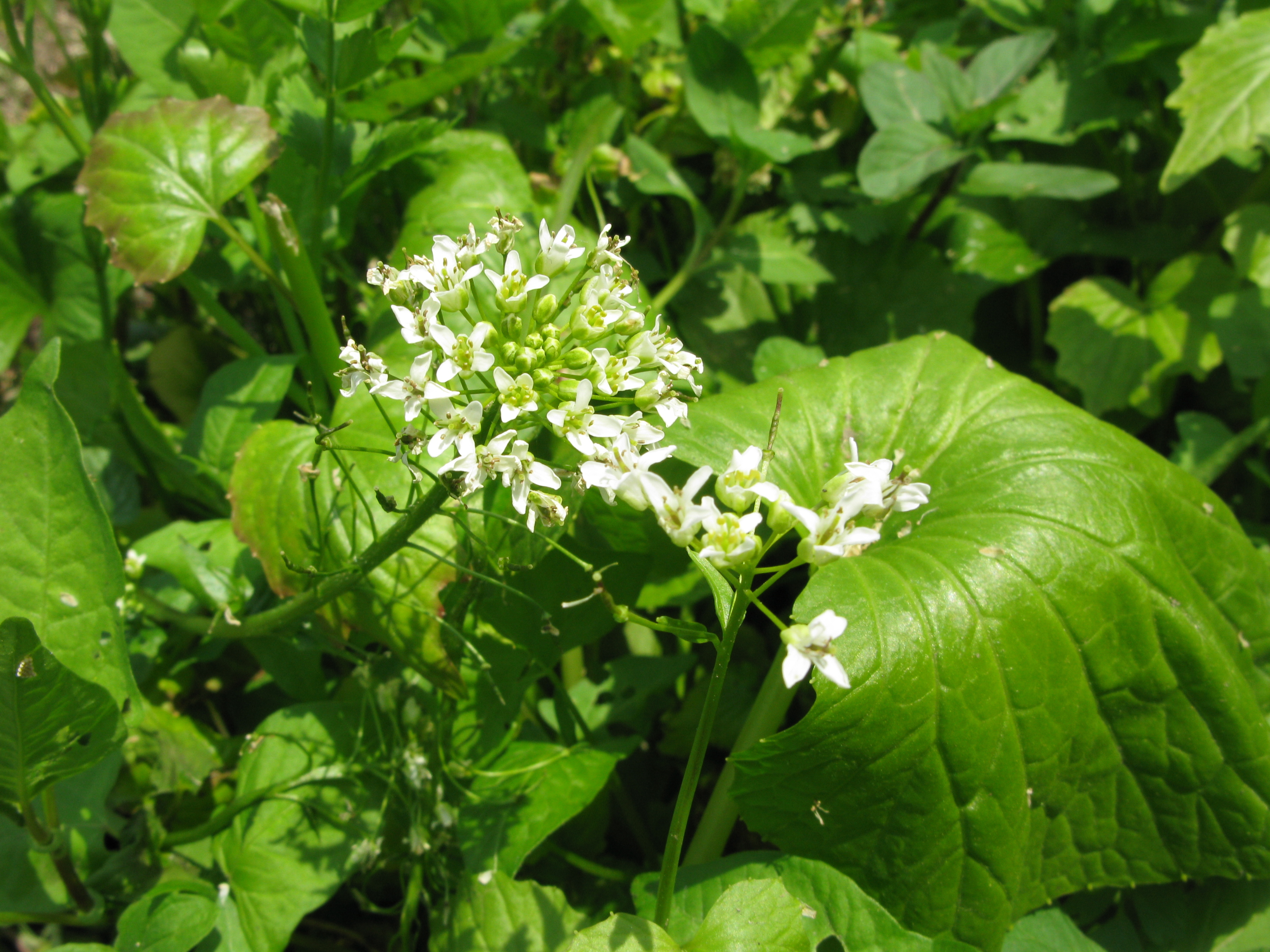 Wasabia japonica, Aizu area, Fukushima pref., Japan